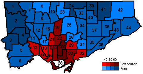 Results of the Toronto municipal election Based on